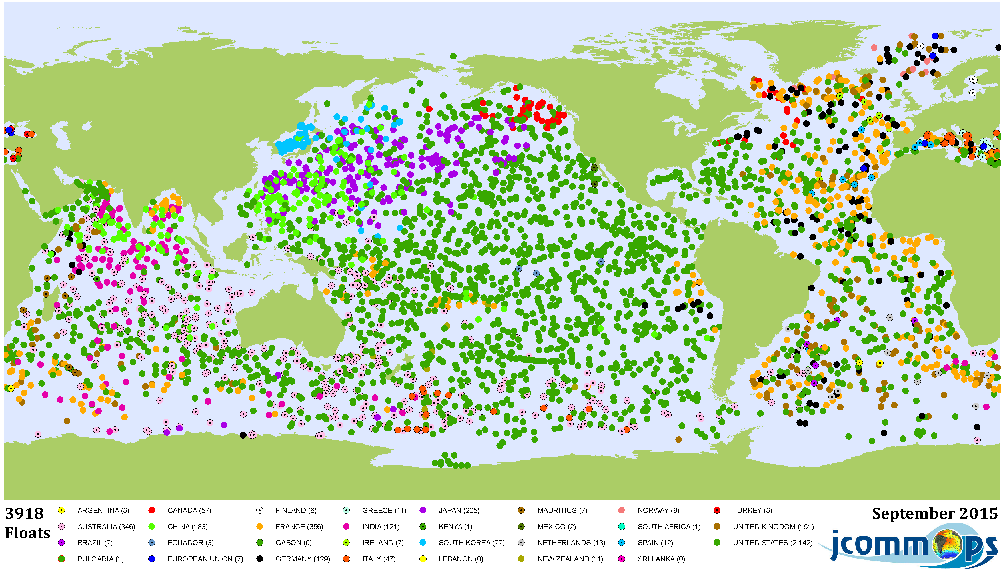 The distribution of active floats in the Argo array, colour coded by country that owns the float, as of the end of September 2015